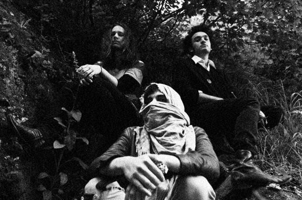 night beats in mount rainier national park, wa